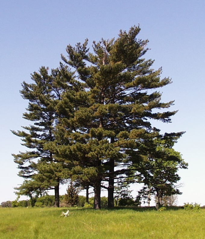 Pinus strobus trees, Sherburne NWR, Minnesota. US FWS photo [1]